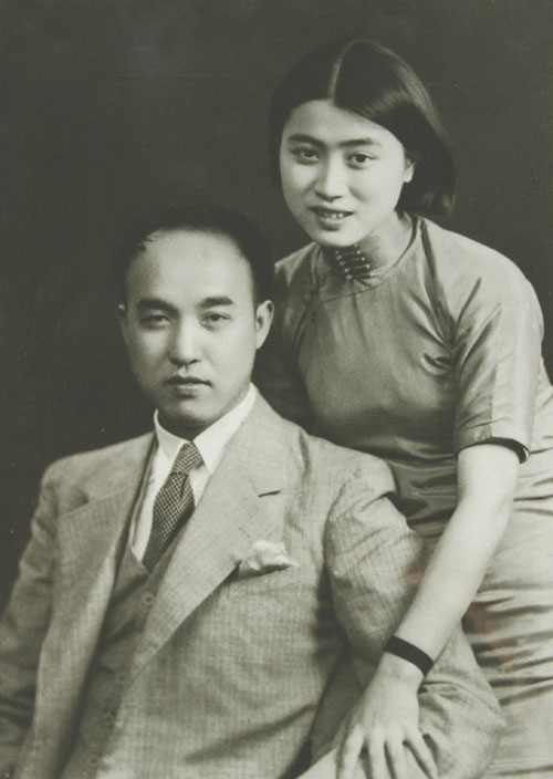 Hu feng and his wife,taken in 1933